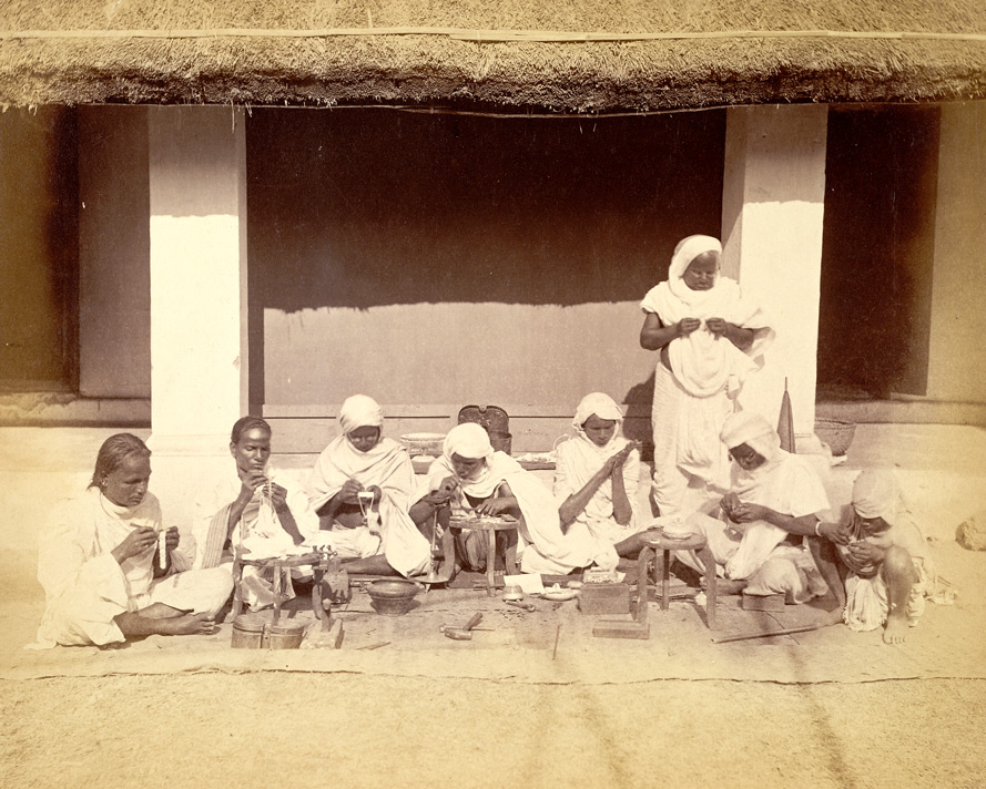 Photograph of a group of eight Sonars (goldsmith caste) at work at Cuttack in Orissa, taken by an unknown photographer in c. 1873, from the Archaeological Survey of India. This image may have been displayed at the Vienna Exhibition of the same year. In the exhibition catalogue John Forbes Watson writes: "The Sonar or gold and silversmith is an indispensable member of the Indian social condition of life; and he is to be found in every village, almost in every hamlet, as well as in all towns and cities. In the Deccan, where original national institutions are preserved in village communes, and wherever they are at present existent throughout India - the Sonar is a member of the hereditary village council, which includes the carpenter and blacksmith, the potter, and other useful and indispensable mechanics, and is twelve in number, presided over by the patell, the hereditary magistrate or head manager."ଓଡ଼ିଆ: ବଣିଆ, ତାରକସି କାମ, କଟକ । This media file is uploaded with Odia loves Wikipedia